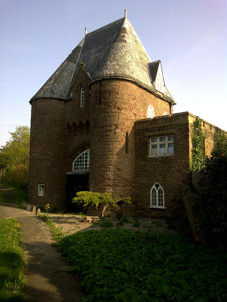 Gatehouse to Goodrich Court